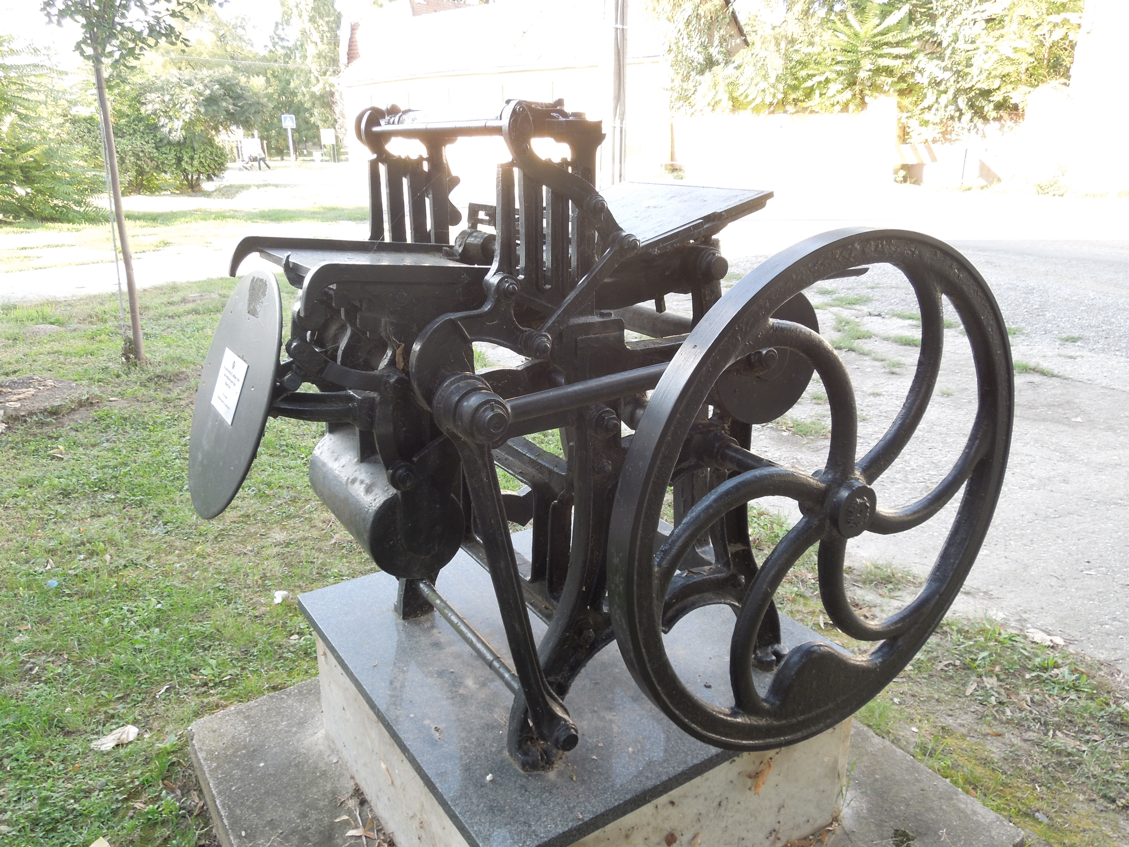 A model of a printing press infront of the publishing house in Bački Petrovac.